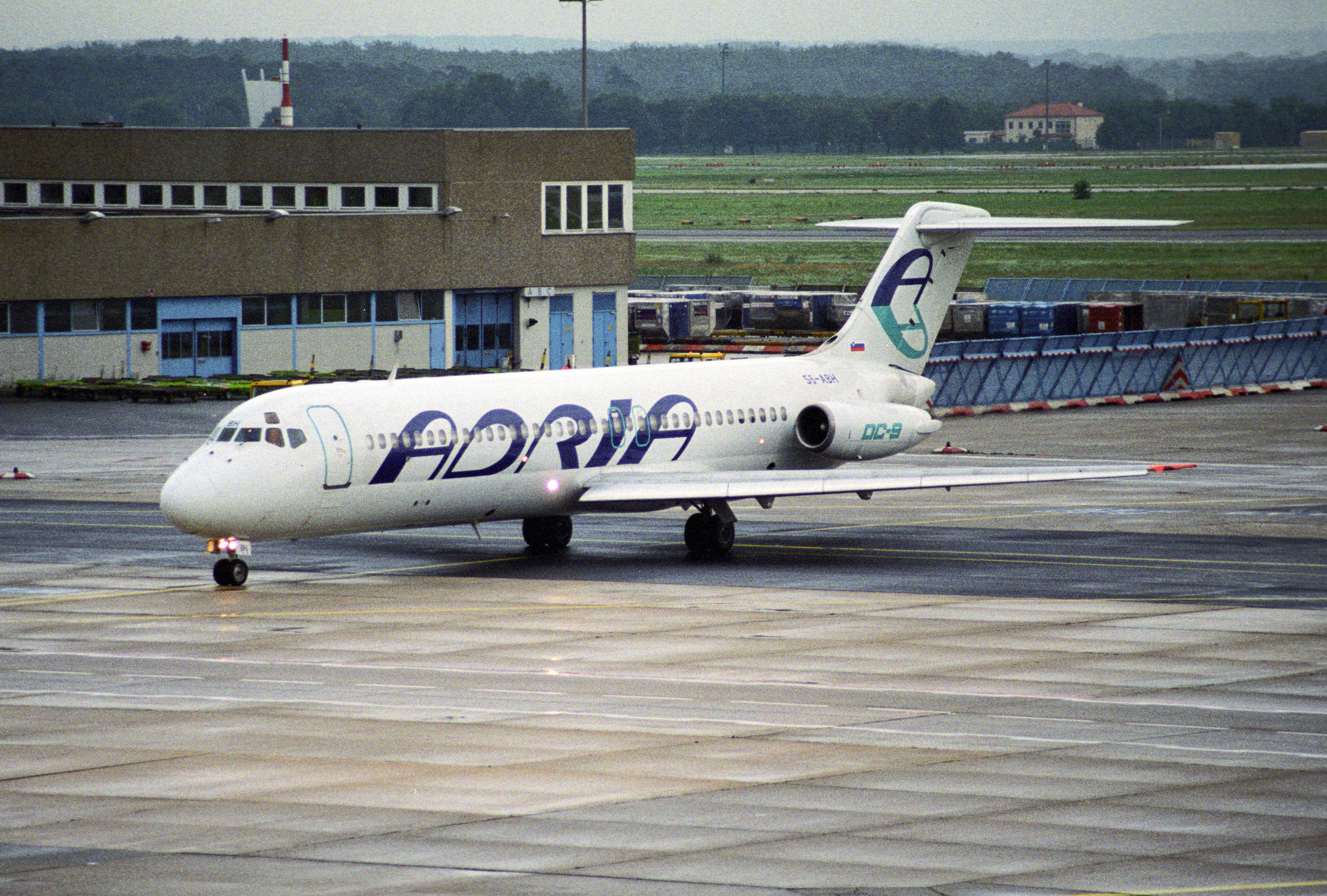 This DC-9-32 took its first flight on December 8, 1972... Before flying with the registration pictured above the 9er flew as YU-AJF for Inex Adria (1973 until 1986), between 1986 and 1990 for British Midland as G-BMWD. Following Slovenia's independence in 1991 the aircraft was re-registered to SL-ABH (December 1991) and again, as S5-ABH, in 1993. In 1998, the California-built jet joined Cebu Pacific's fleet, as RP-C1537.